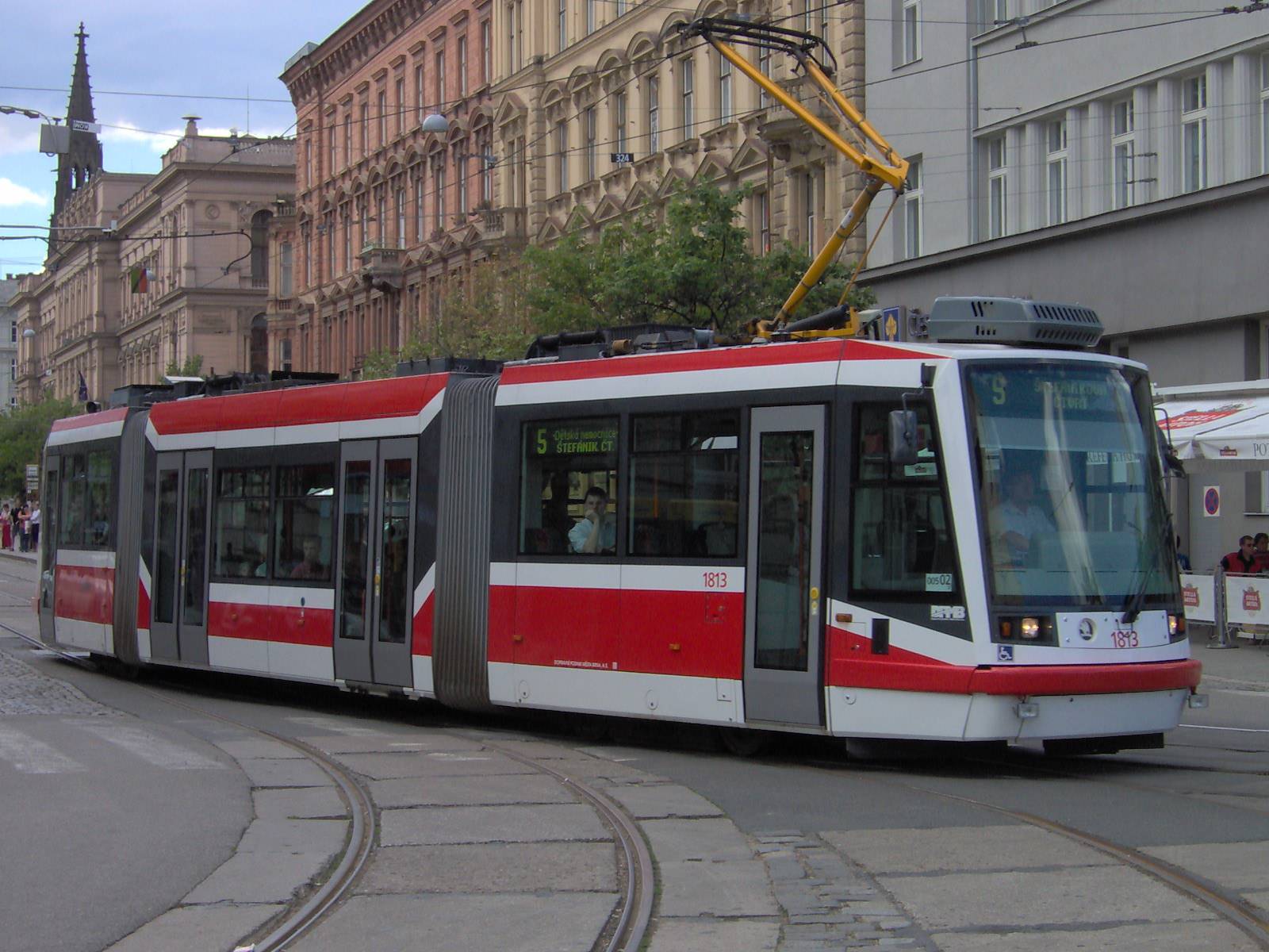 Škoda Anitra (03 T) tram in Brno